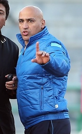 Alireza Mansourian, head coach of Naft Tehran